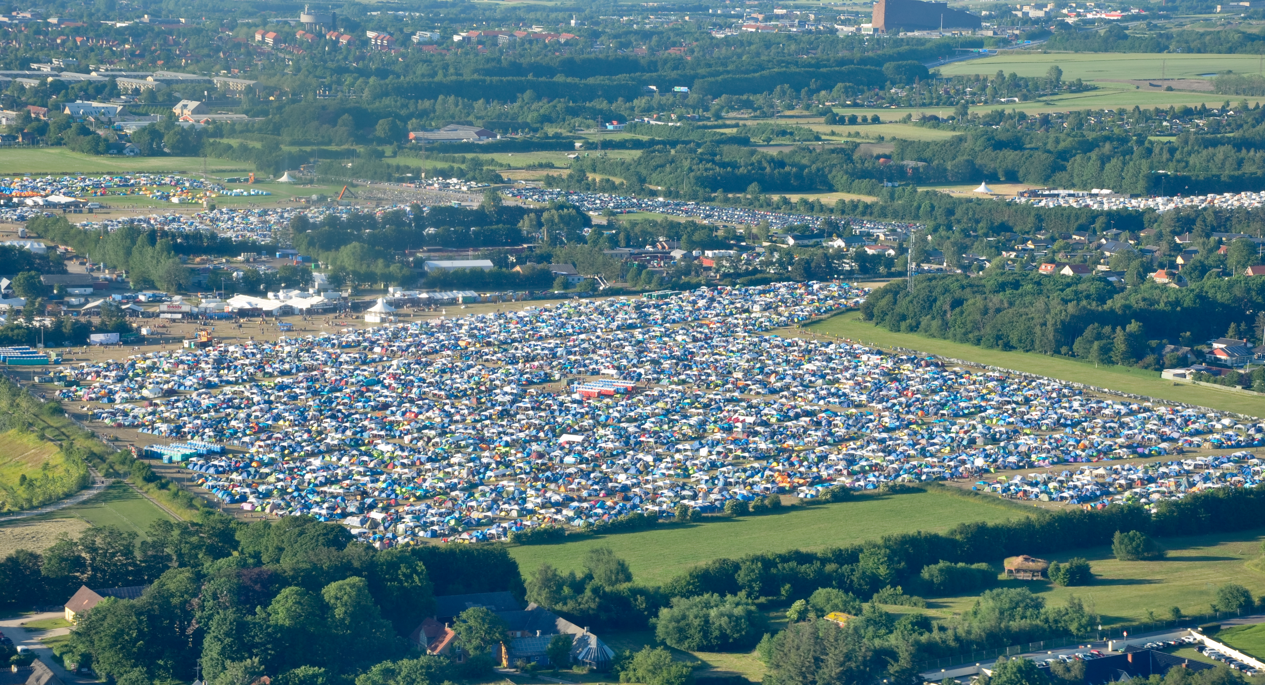 The camp area of Roskilde Festival in Roskilde, Denmark, 2015. Photographed on a flight with the Danish Douglas DC-3 Dakota